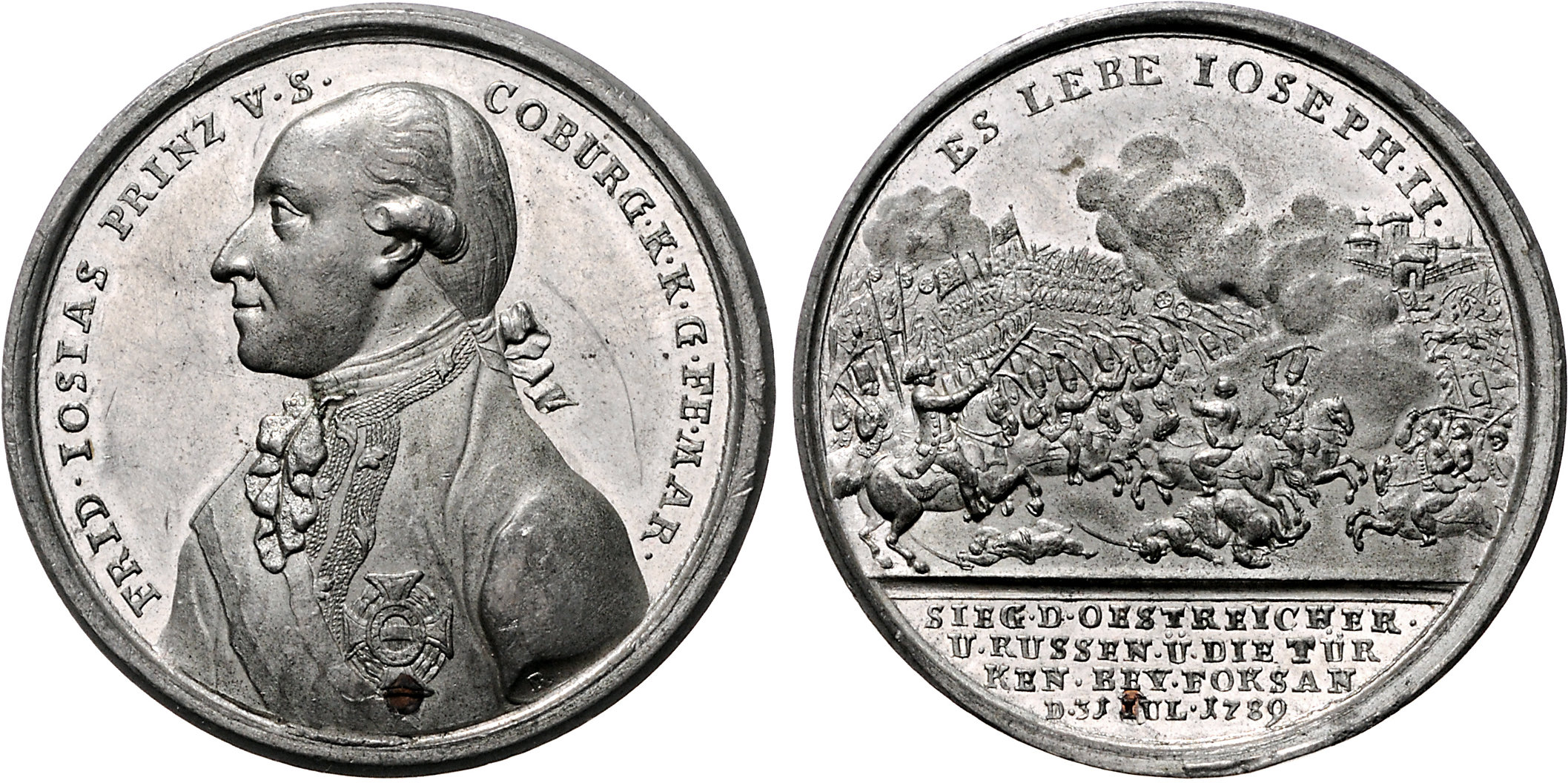 Medal of Prince Josias of Saxe-Coburg-Saalfeld (1737-1815), General of the Holy Roman Empire